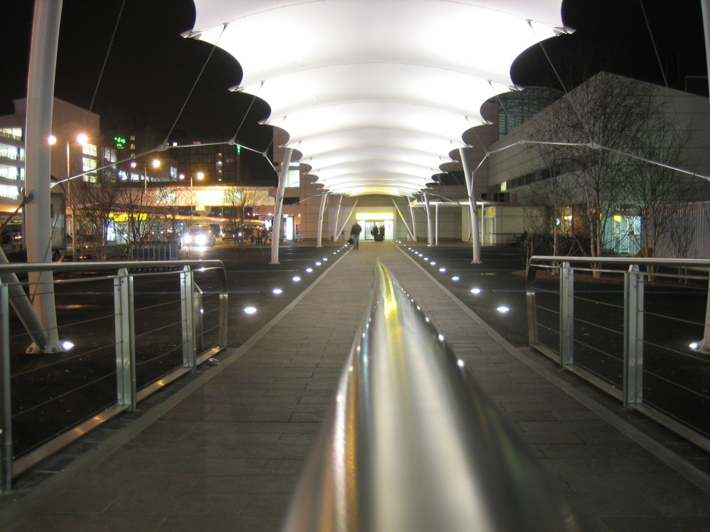 The walkway between the two terminal buildings at Glasgow Airport.